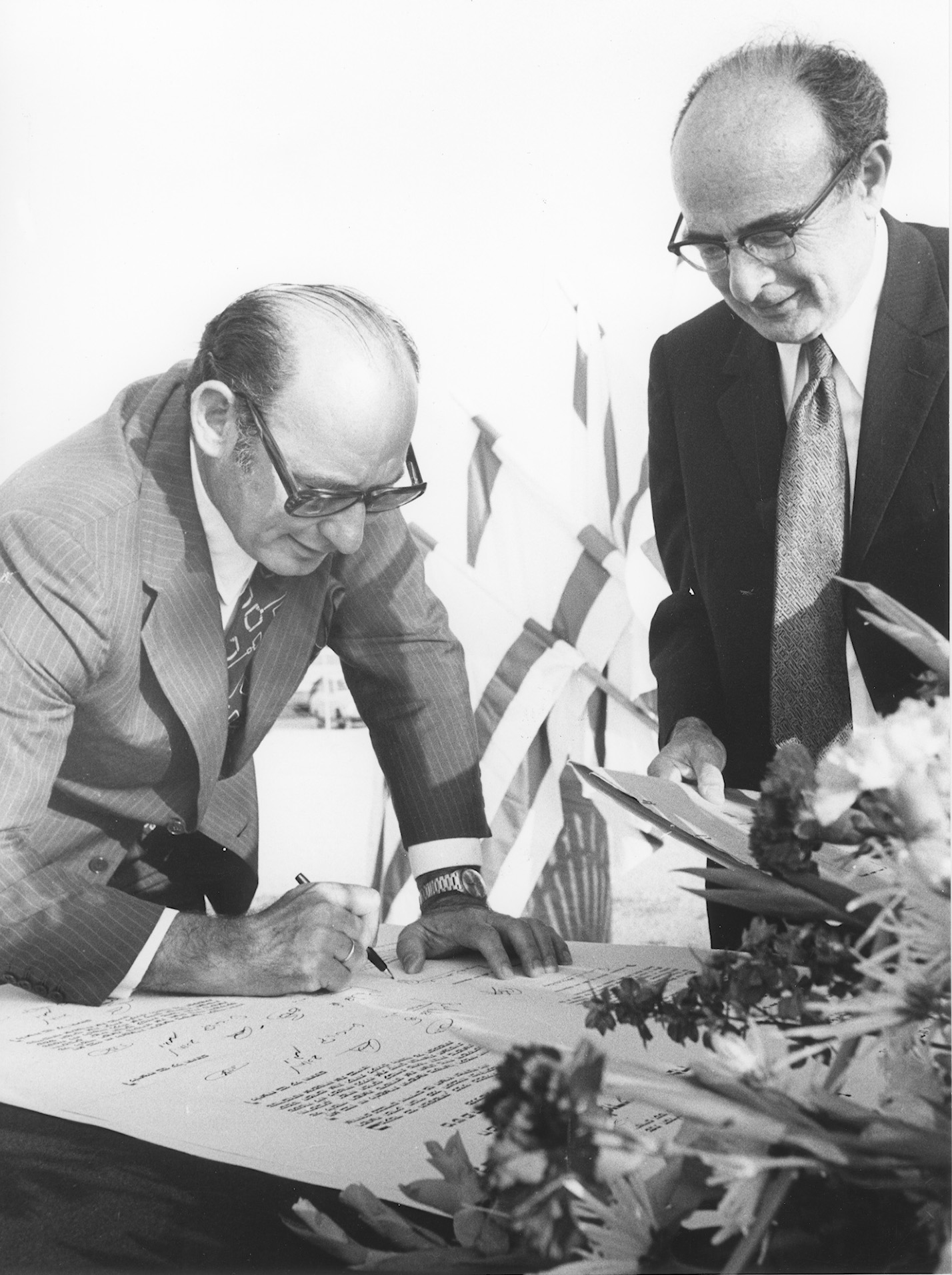 Prof. Erlik and Mr Rappaport at the corner stone laying of the faculty of medicine